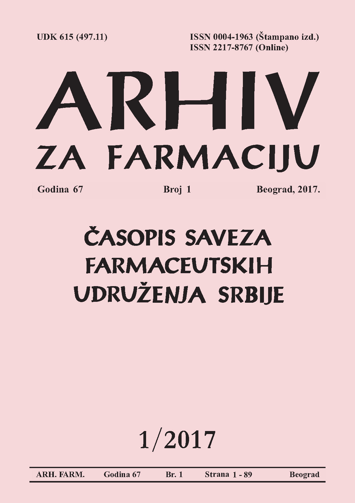 Scientific journal of Serbia Arhiv za farmaciju, 2017, published by Pharmaceutical Association of Serbia, Belgrade, Serbia